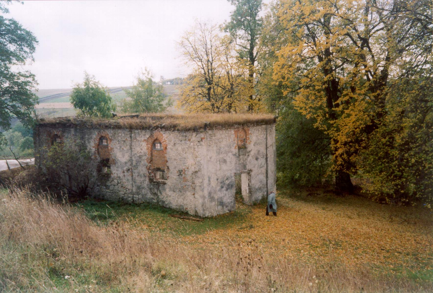 Czernica, Roman catholic church destroyed in 1944